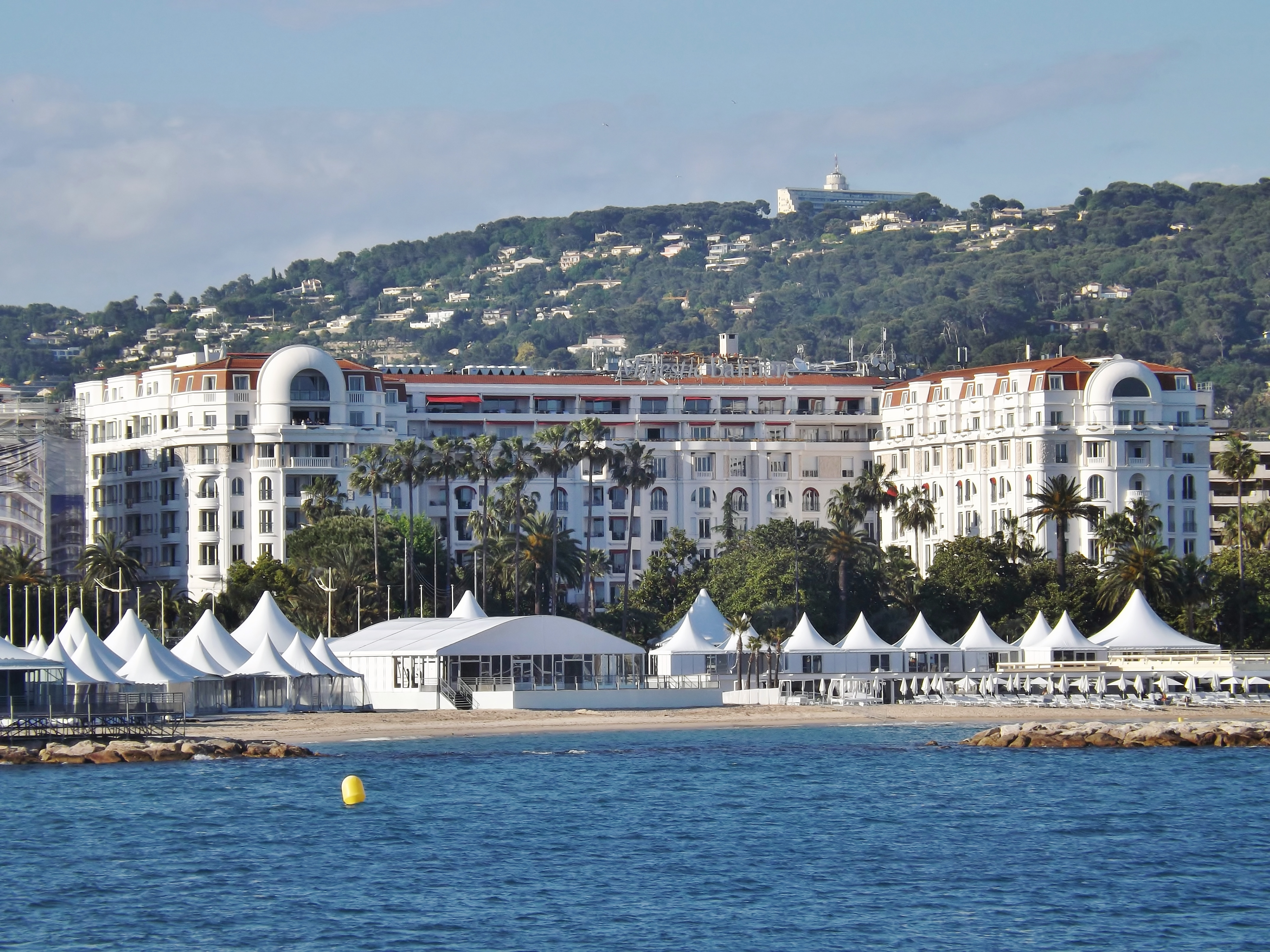 General sight of the Hôtel Majestic Barrière hostel, on the Croisettes of Cannes, Alpes-Maritimes.